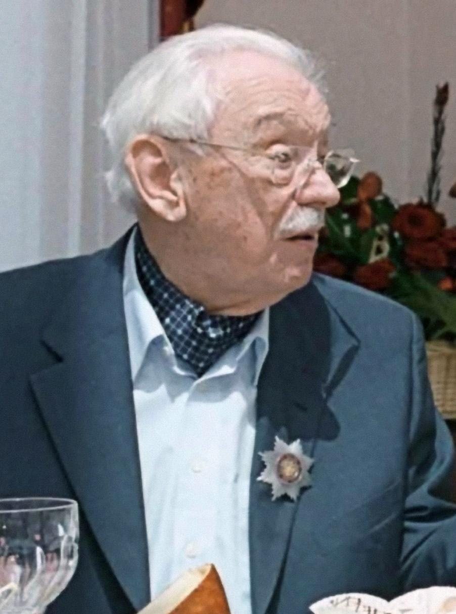 Sergey Vladimirovich Mikhalkov (13 March 1913 − 27 August 2009) was a Russian author of children's books and satirical fables who had the opportunity to write the lyrics of his country's national anthem on three different occasions, spanning almost 60 years.